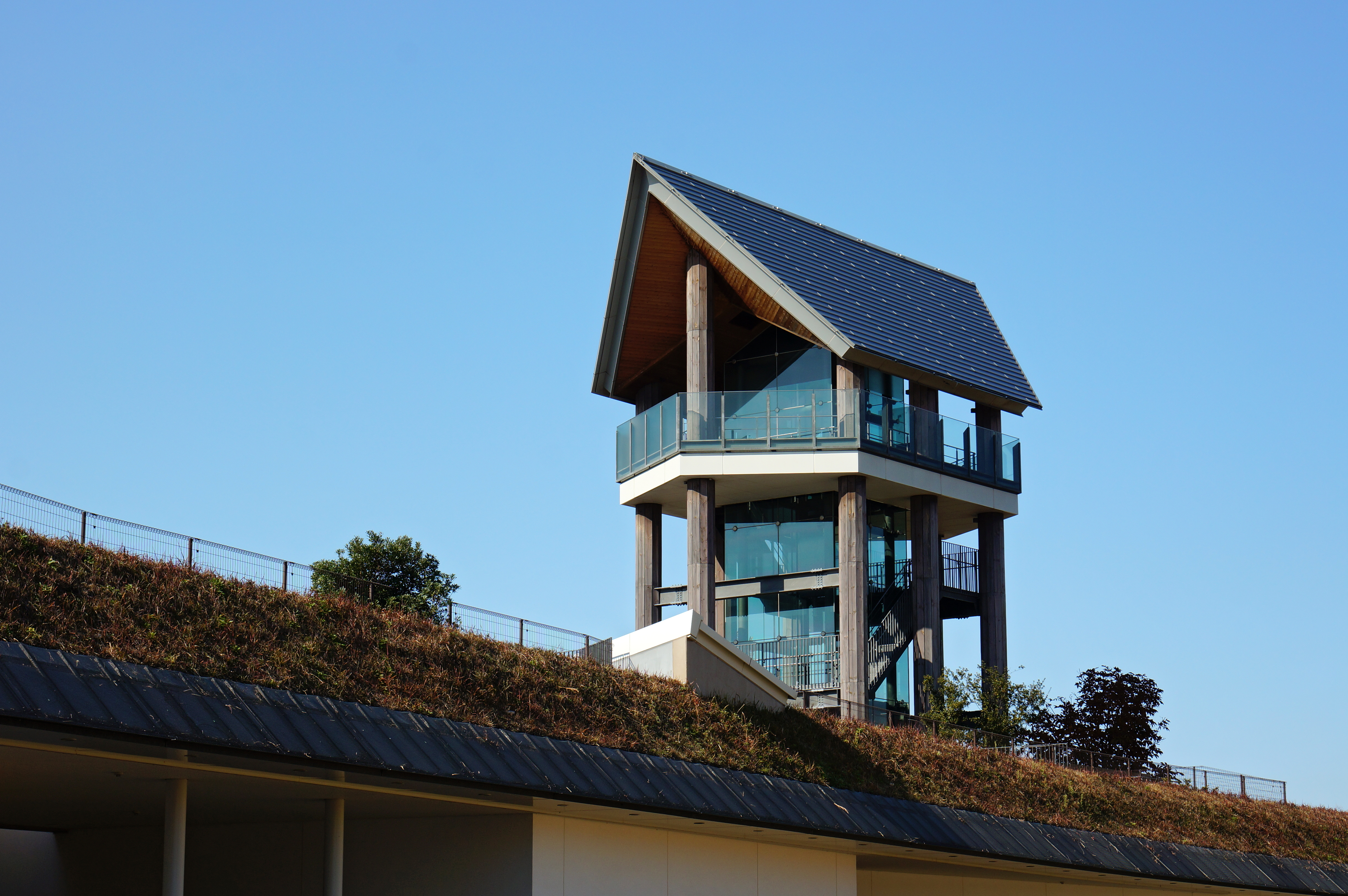 At Hyogo Prefectural Museum of Archaeology in Harima, Hyogo prefecture, Japan.